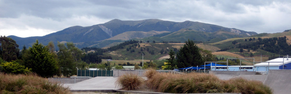 Looking over the skate park & swimming pool towards Mt Oxford